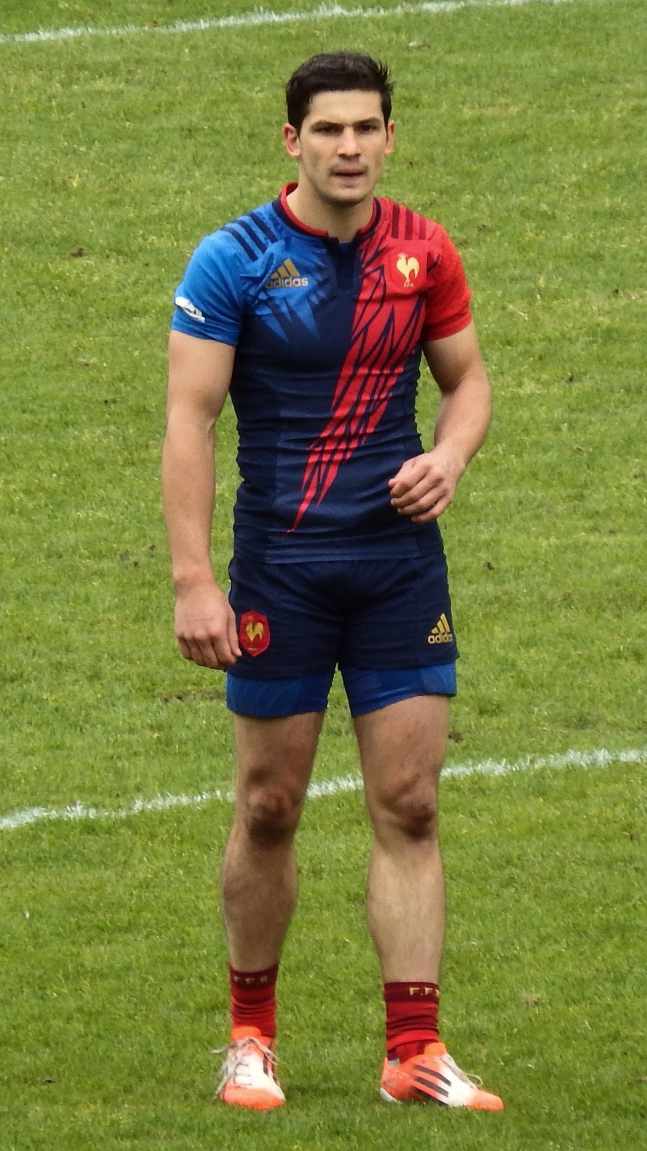 2016 Paris Sevens — 14 May 2016, stade Jean-Bouin. Match between: France — United States